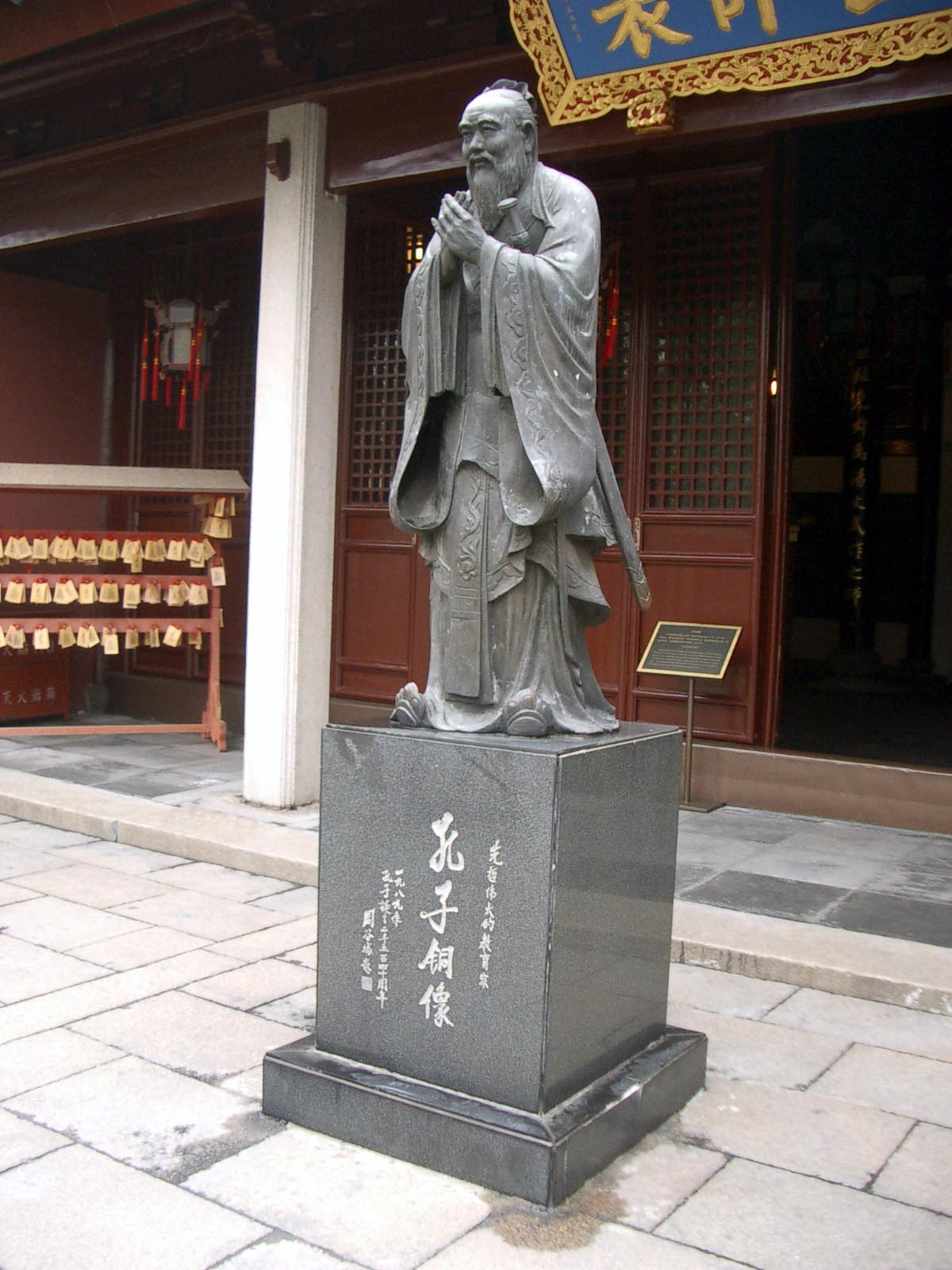 Status of Confucius, Confucius Temple of Shanghai